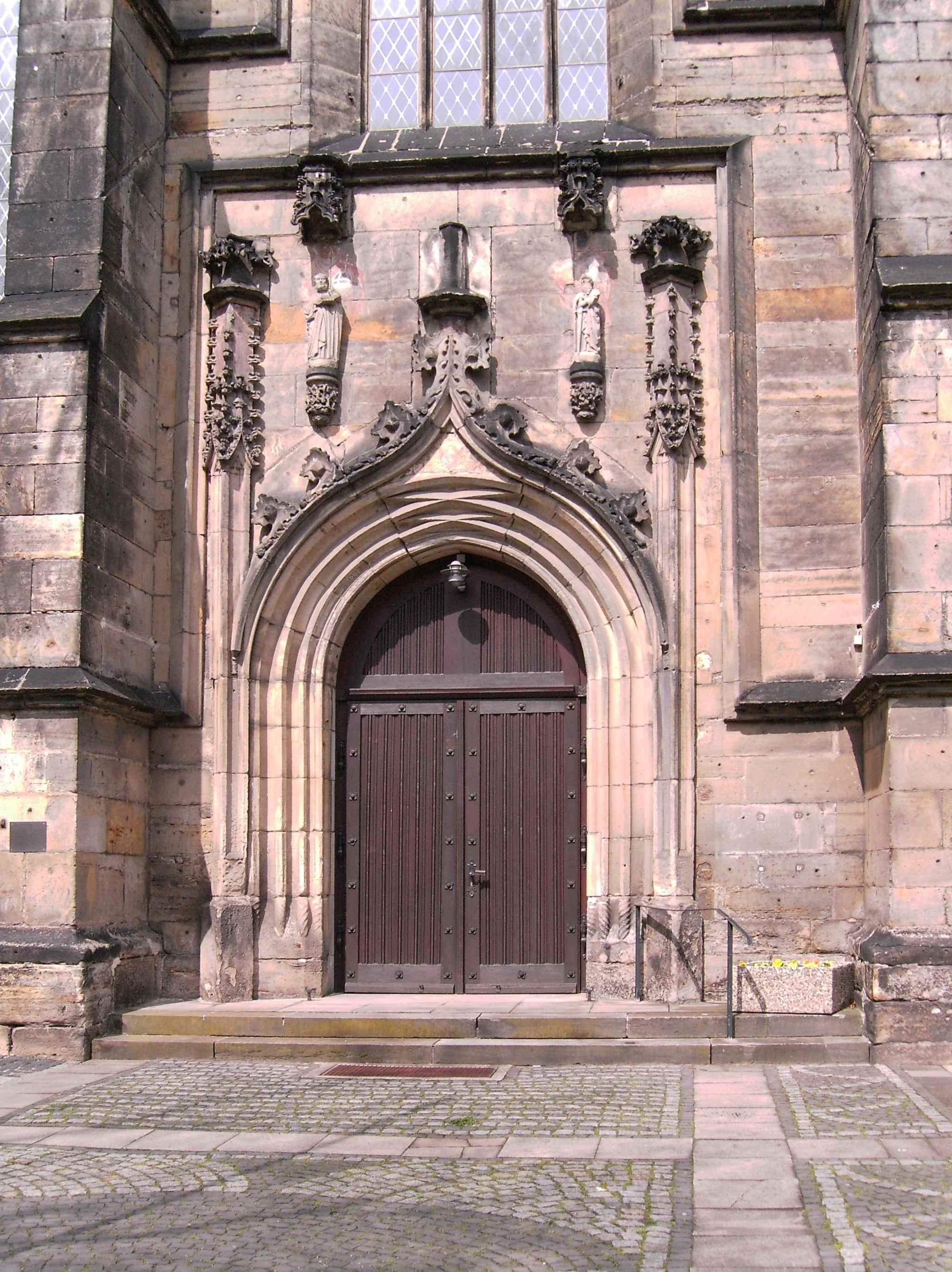 Hildesheim, Neustädter Markt, Lambertikirche